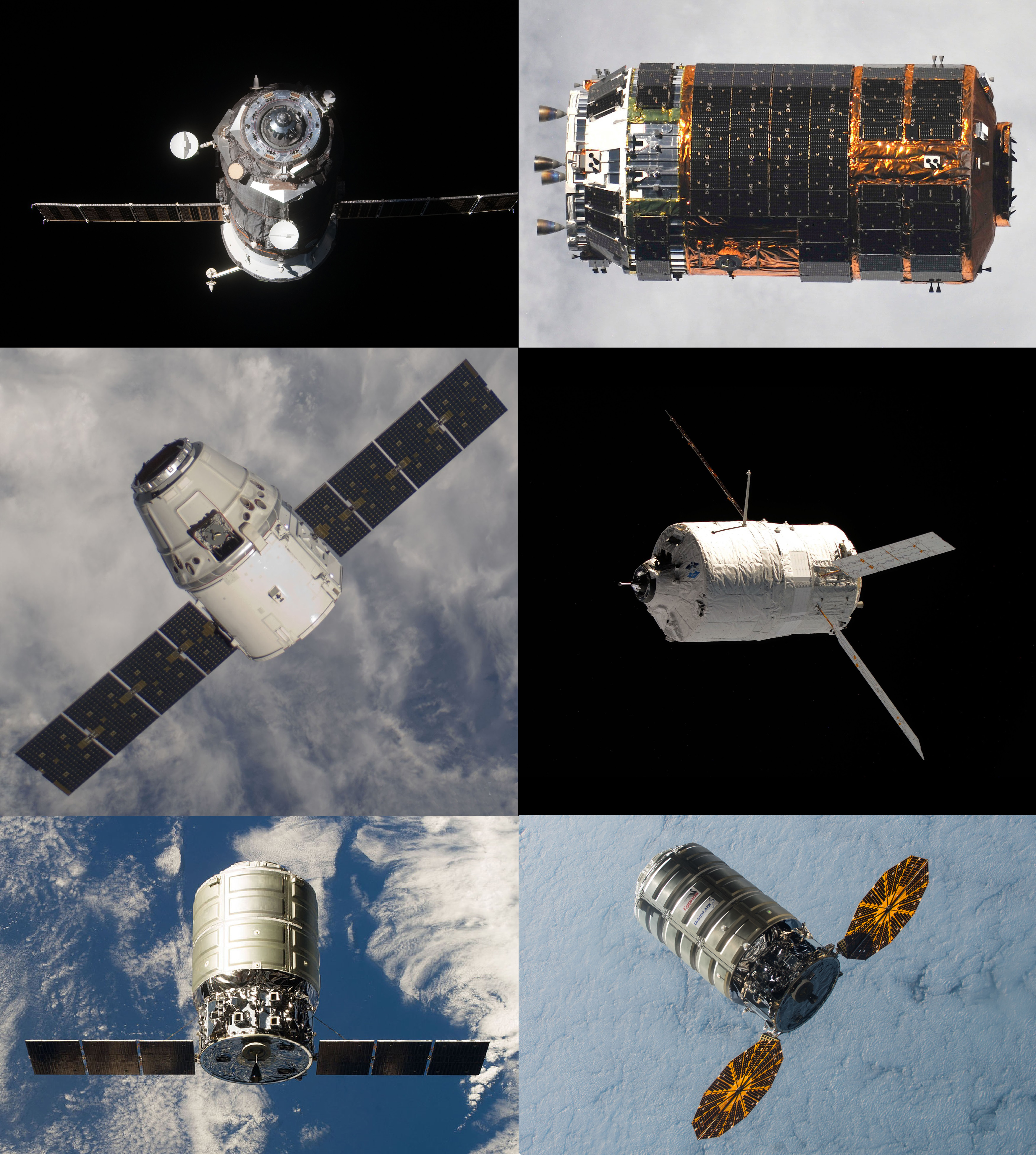 The vehicles resupplying the ISS